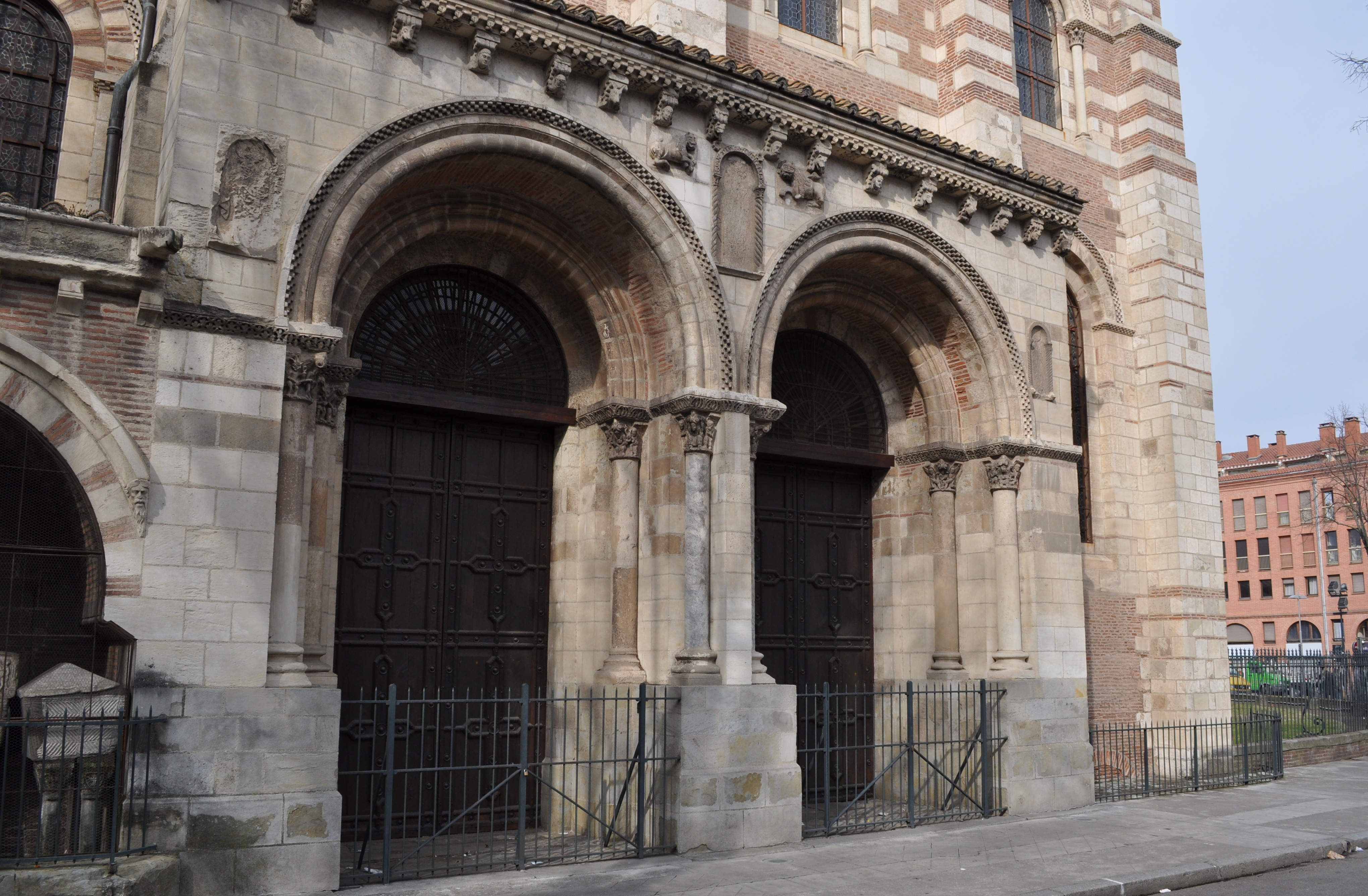 The Porte des Comtes at St. Sernin in Toulouse (end of the south transept)